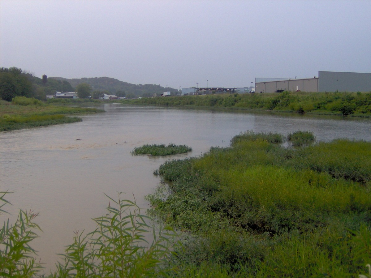 The confluence of the Little Pigeon River (right) and the West Fork of the Little Pigeon River (left) in Sevierville, Tennessee, located in the Southeastern United States. Early Cherokee trader Isaac Thomas settled across the river on the left sometime around 1780.